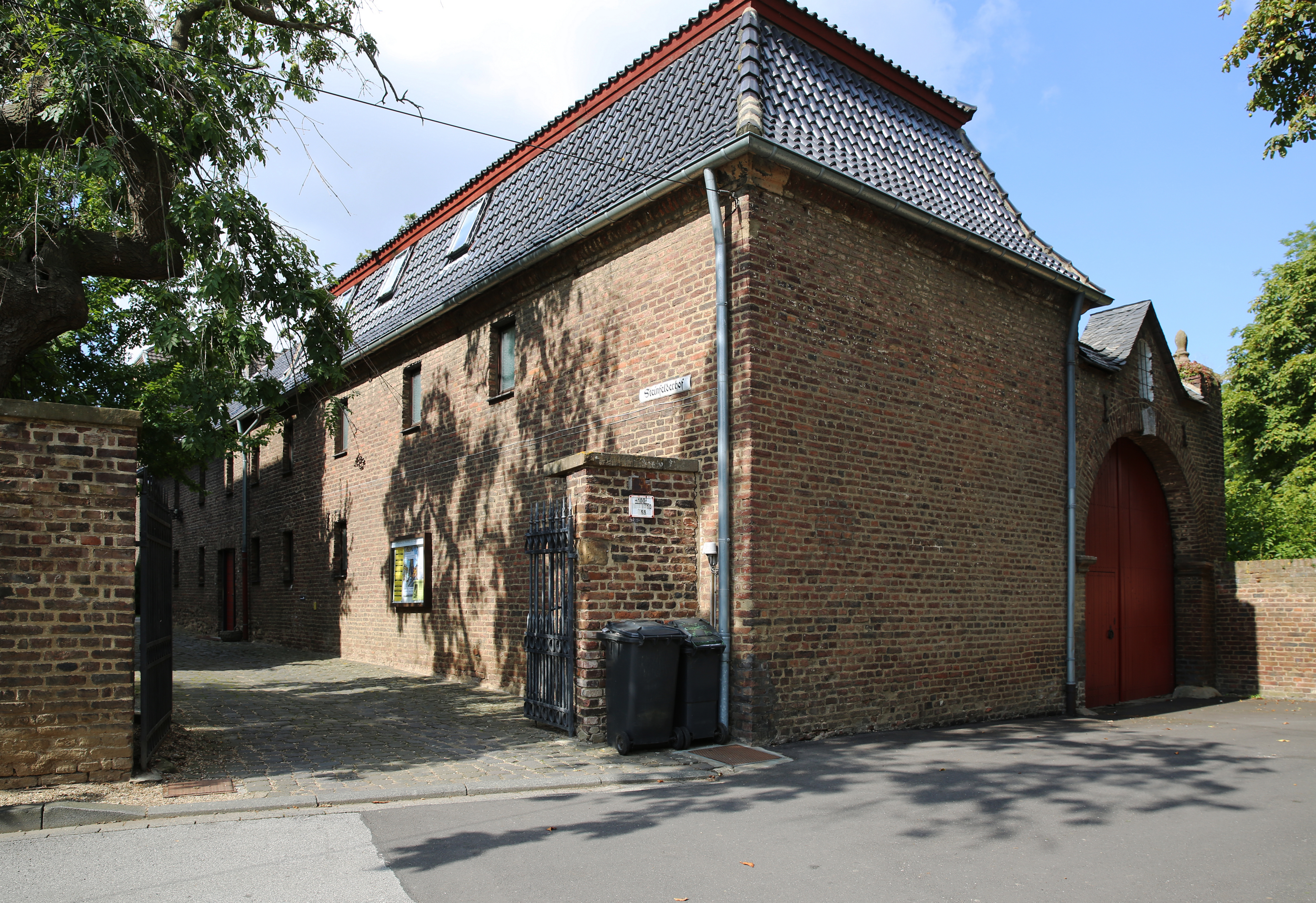 Medieval tithe house "Stepnfelder Hof", Hochkirchen (Nörvenich), Germany